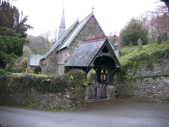 The Parish Church of Saint Anne, Hessenford. Having passed the church on many occasions it was not until I was researching my family tree and visited the graveyard (on the hill behind)to find buried ancestors (Bray and Carpenter who were farmers),where my quest bore fruition as both families were among the first, and in very prominent positions with excellently preserved headstones. The church was built by local subscription with labour, material and financial contributions and was dedicated on the 26th September 1833, at that it time was a district chapel of Saint Germans parish, the perpetual curate being appointed by the vicar of Saint Germans however, Hessenford became a parish in its own right by "Order in Council" in 1852. The lych gates were a gift and built in 1905, the original gates being used for the entrance to the church yard.